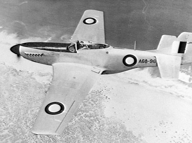 En route Pearce, WA – Williamtown, NSW. CAC Mustang A68-96 piloted by Wing Commander R C Cresswell in flight from RAAF Pearce to RAAF Williamtown. The aircraft was one of four from No 78 (Fighter) Wing RAAF Williamtown to fly to Western Australia to participate in Australia Day activities, the others were piloted by Squadron Leader J Kinninmont DFC, Flight Lieutenant R H Glassop DFC and Flight Lieutenant R Grace. The photograph was taken from GAF Lincoln A73-10 of No 82 (Bomber) Wing RAAF Amberley QLD piloted by Wing Commander K R Parsons DFC AFC and which provided escort to the Mustangs.